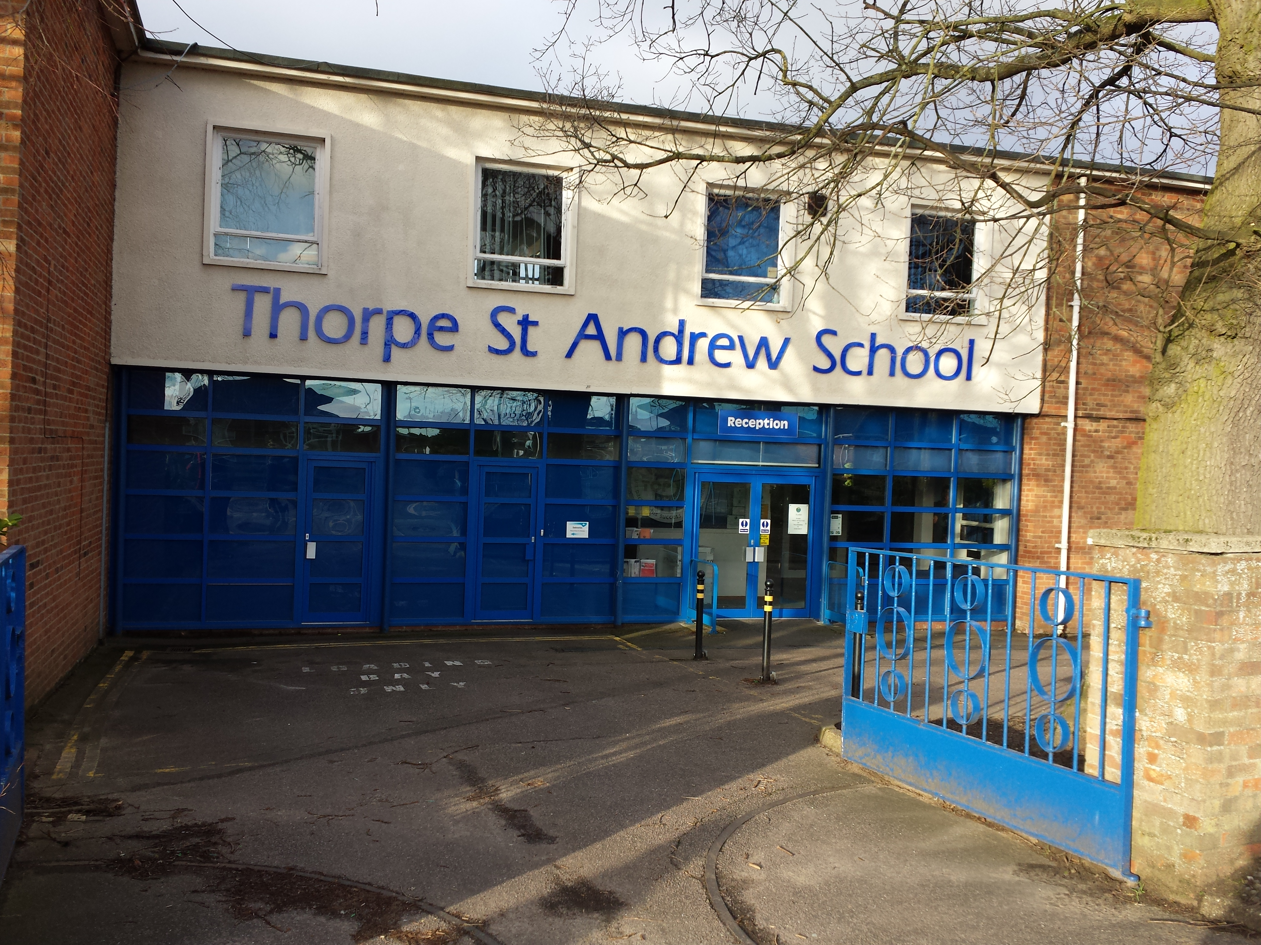 Thorpe St Andrew High School.